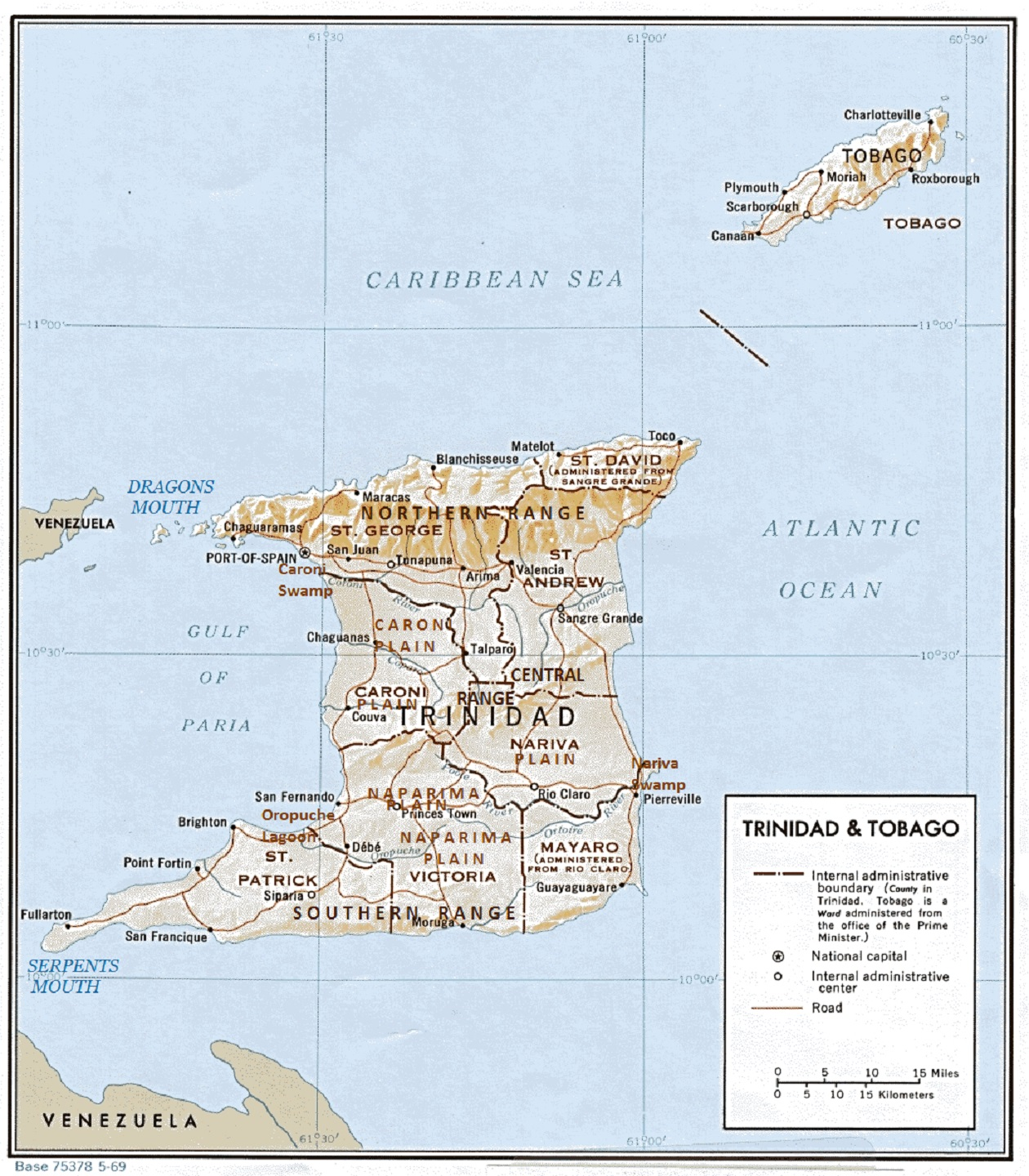 A annotated shaded relief map of the island of Trinidad, showing the major mountain ranges, rivers, plains, swamps, and straits. Public domain map annotated by Fowler&fowler (talk) 19:57, 14 October 2013 (UTC)